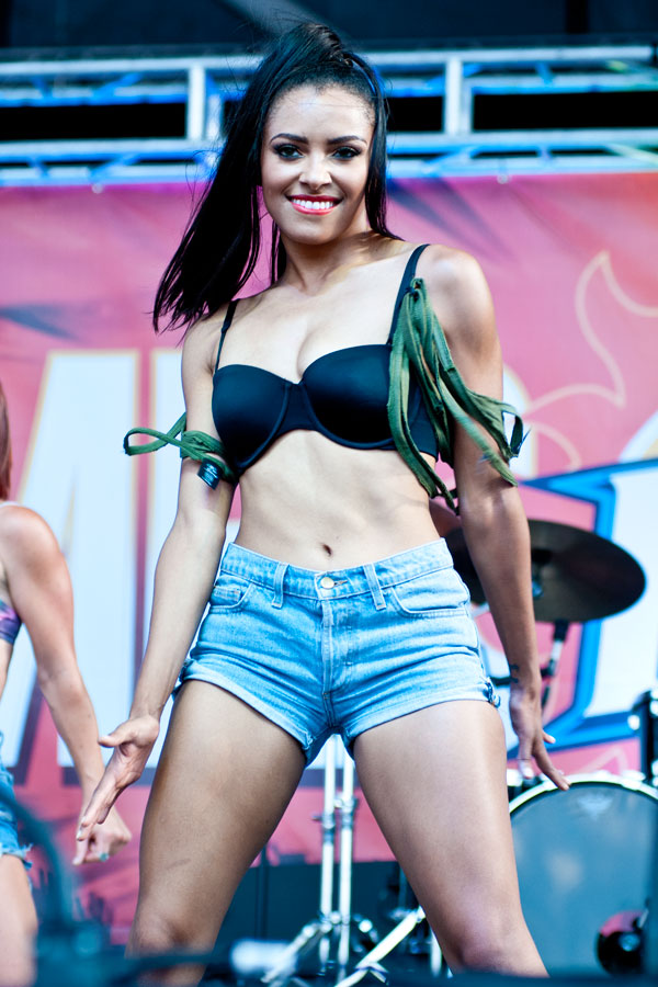 Kat Graham performs at B96 Summerbash, Toyota Park, Bridgeview, IL, USA.